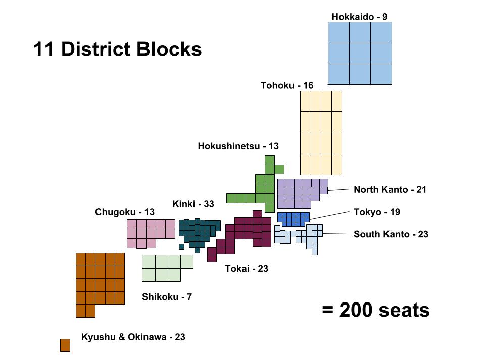 Distribution of 200 seats elected through proportional representation, divided among 11 district blocks. This was after the 1994 electoral reform in Japan.